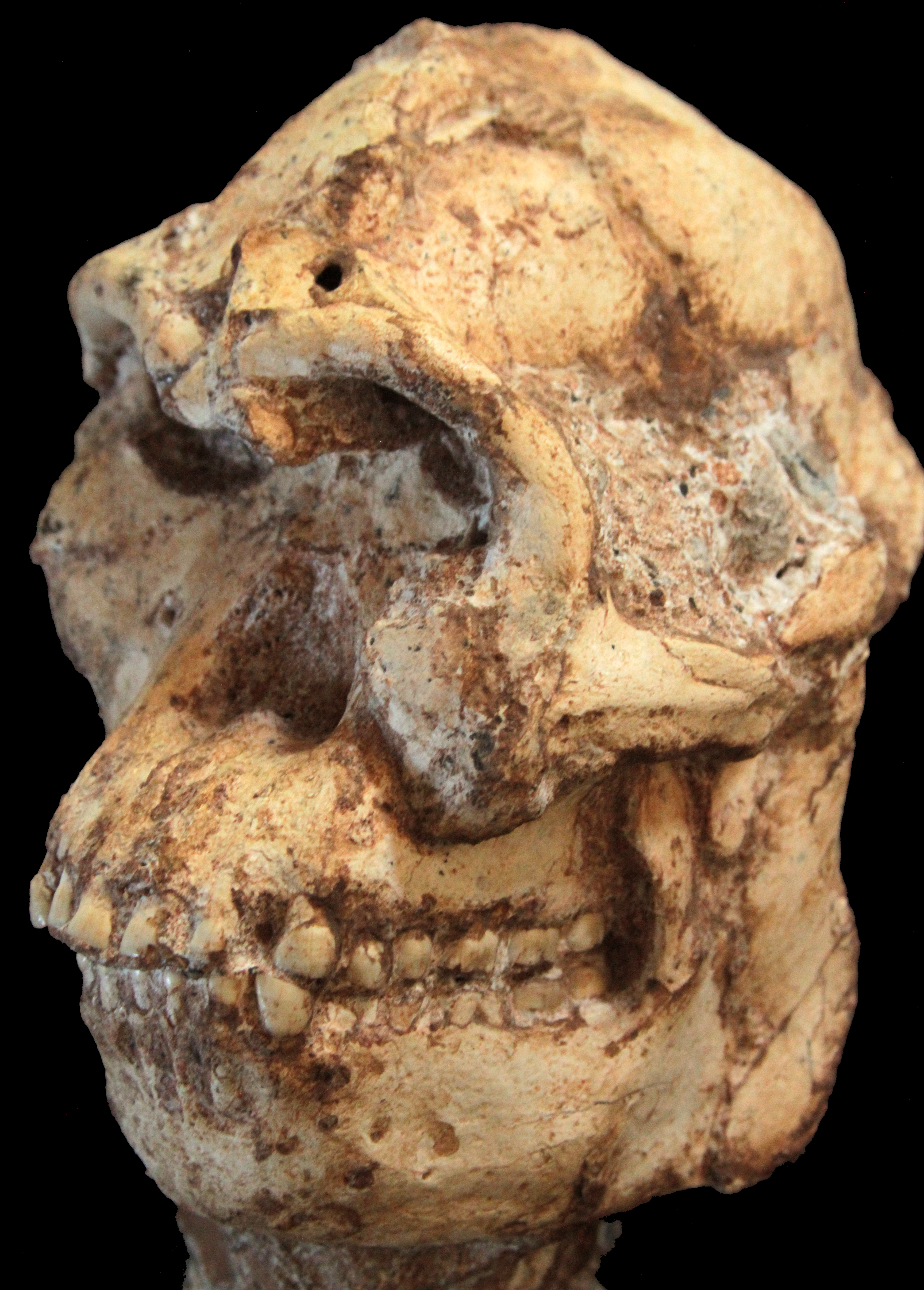 Little Foot skull (StW 573)